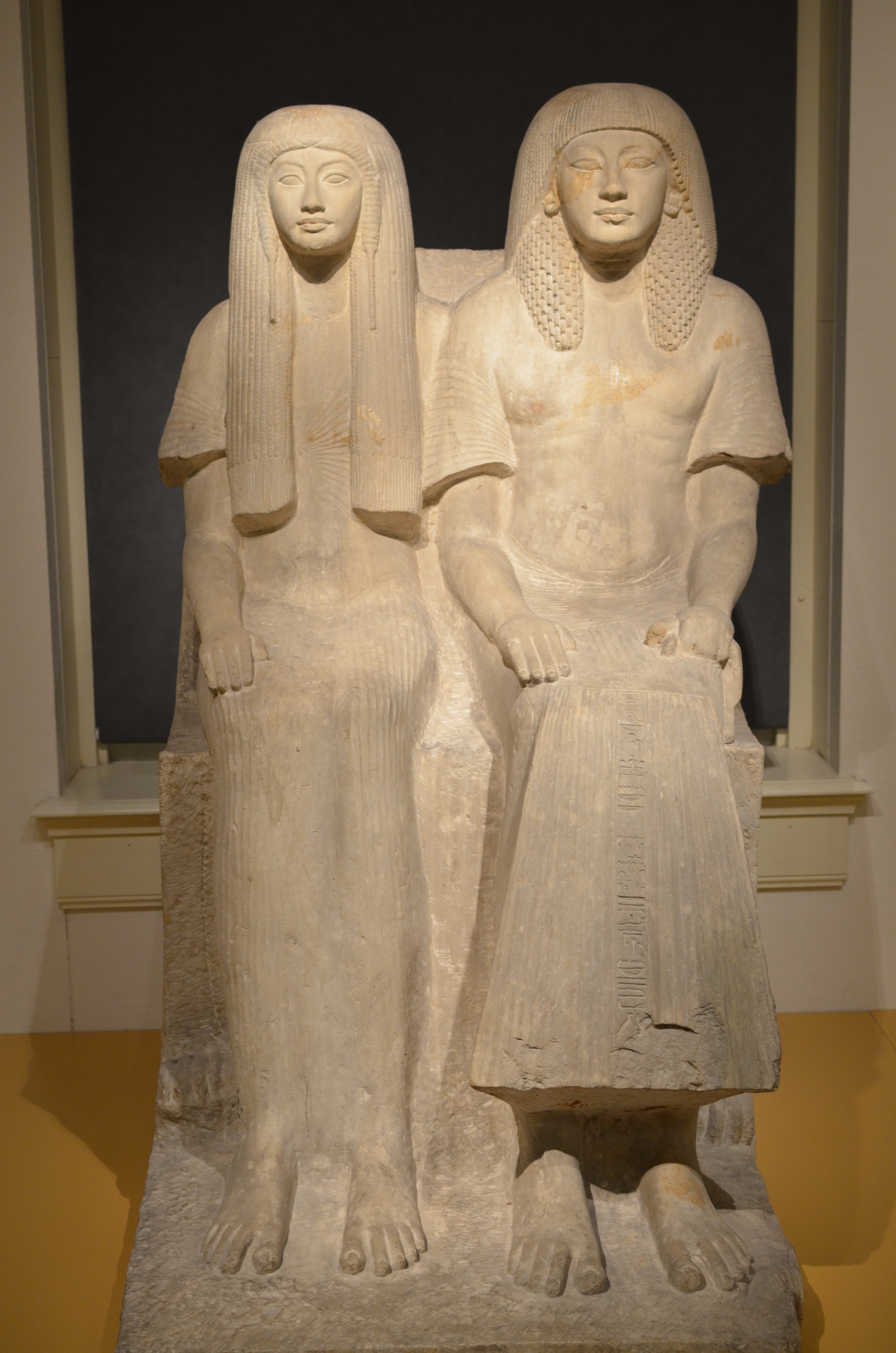 Tomb statue of Maya with his consort Meryt from Maya's tomb.